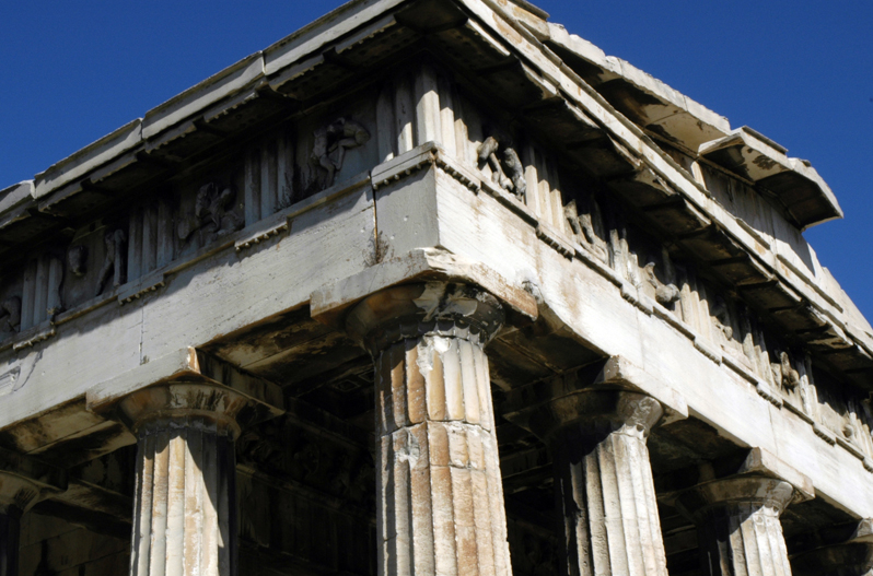 The entablature of the Hephaisteion (temple of Hephaistos) in AthensJ. Matthew Harrington, personal digital image dosiero:Templo de Hefesto.jpg